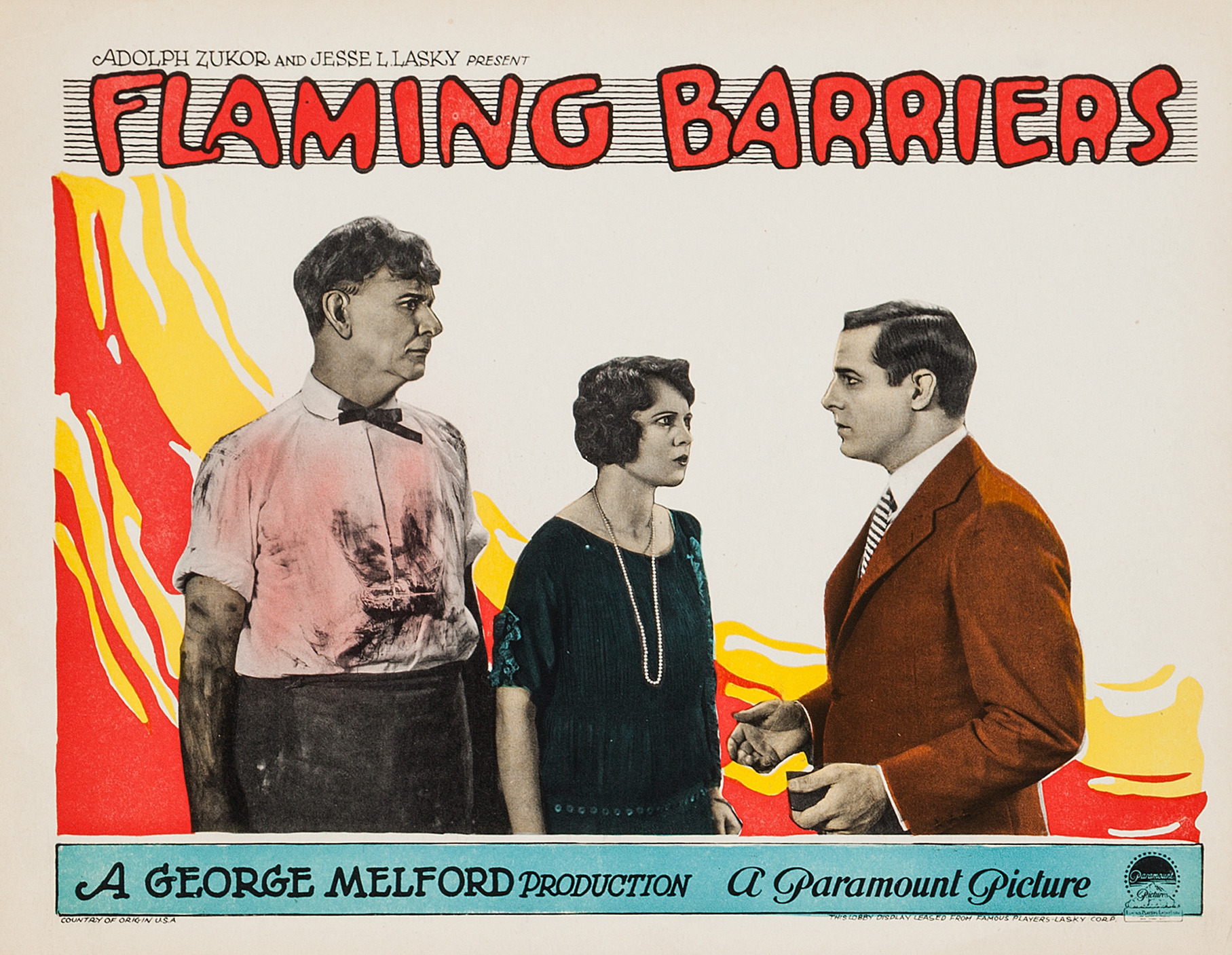 Flaming Barriers is a lost 1924 American drama silent film directed by George Melford and written by Byron Morgan and Harvey F. Thew. This is a lobby card printed without a copyright claim.